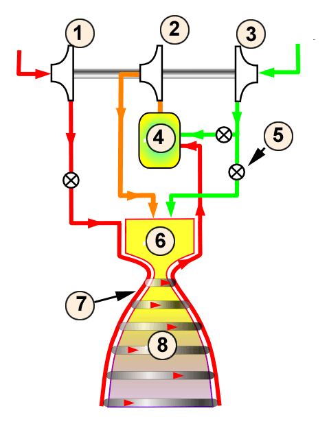 Staged combustion rocket cycle drawing with numeric labels